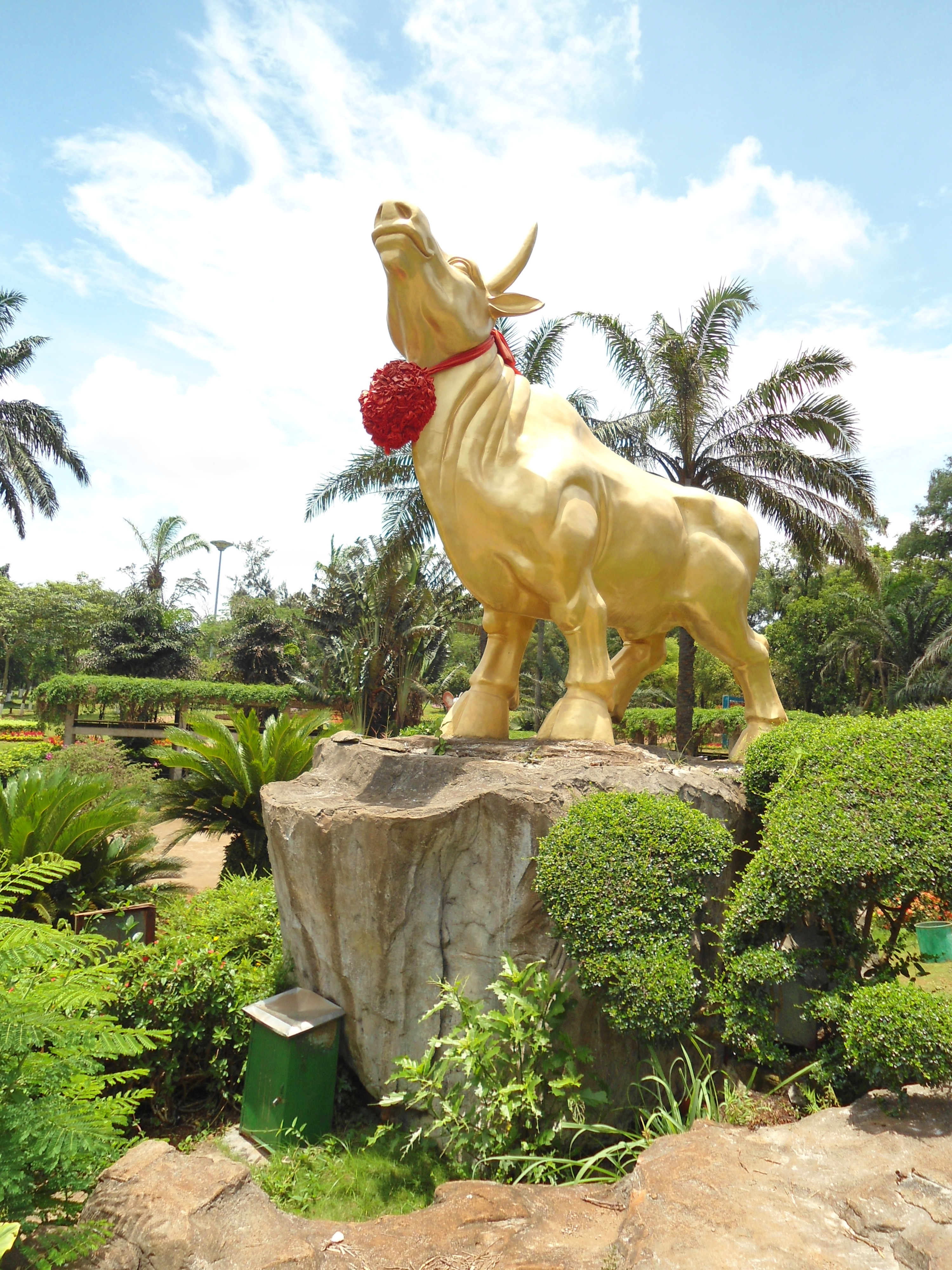 Golden Bull Mountain Ridge Park, Haikou City, Hainan Province, China.